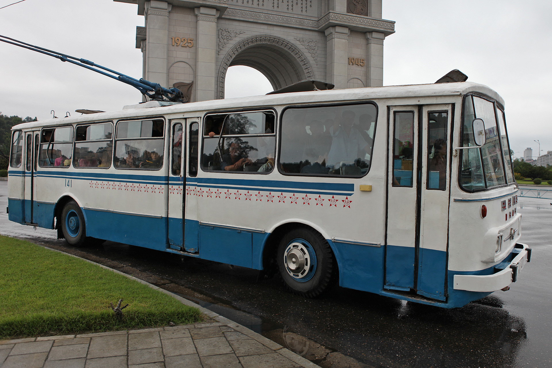 A star is painted on the side of buses and trolleybuses for each 50 000 km without accident.